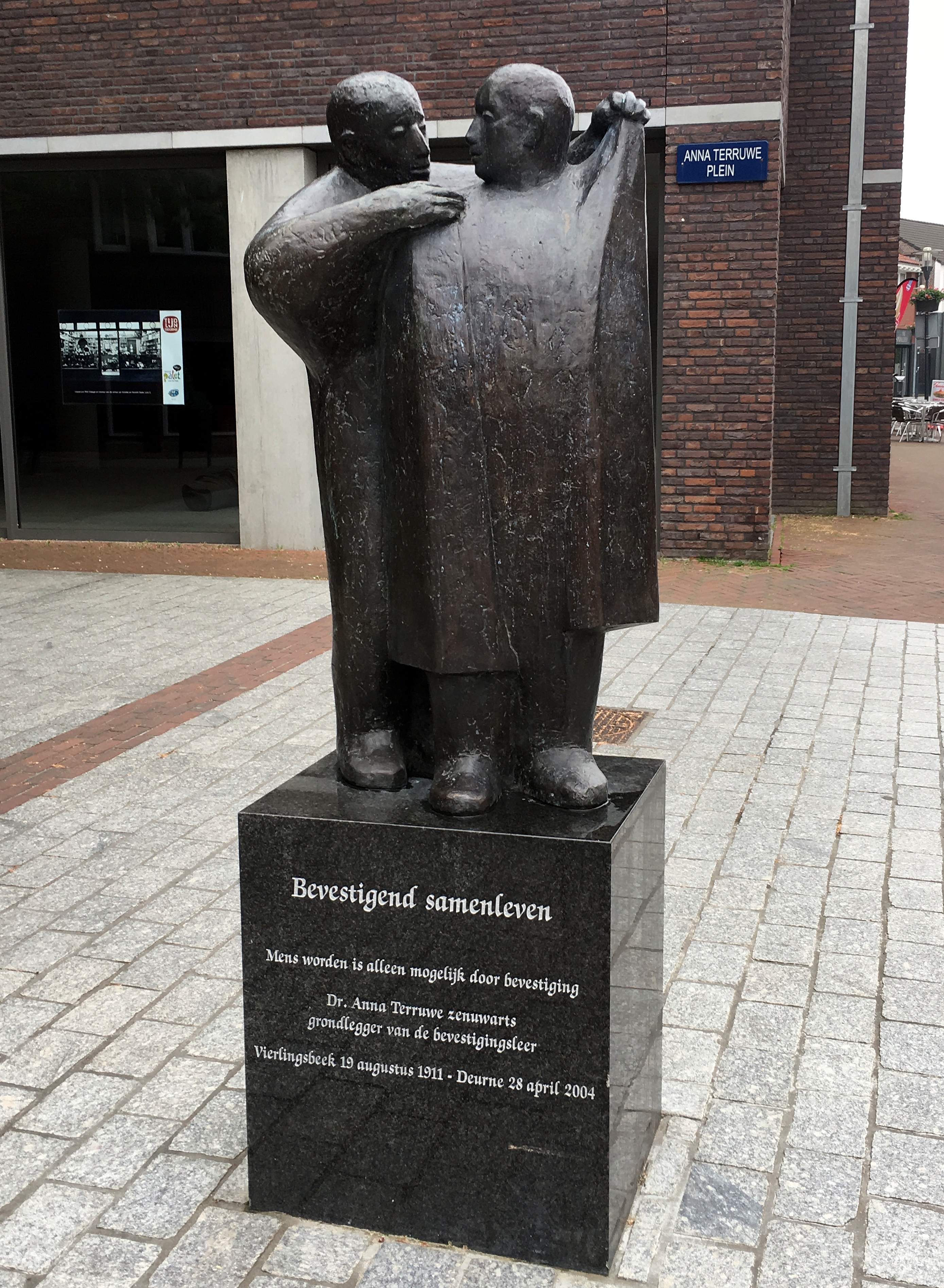 Dr. Anna Terruwe by Britt Wikstrom in Deurne NL